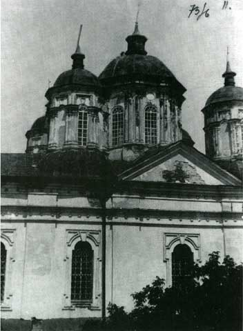 A photo of the historic Cossack Mezhyhirskyi Monastery near Kiev, Ukraine. Destroyed in 1935.